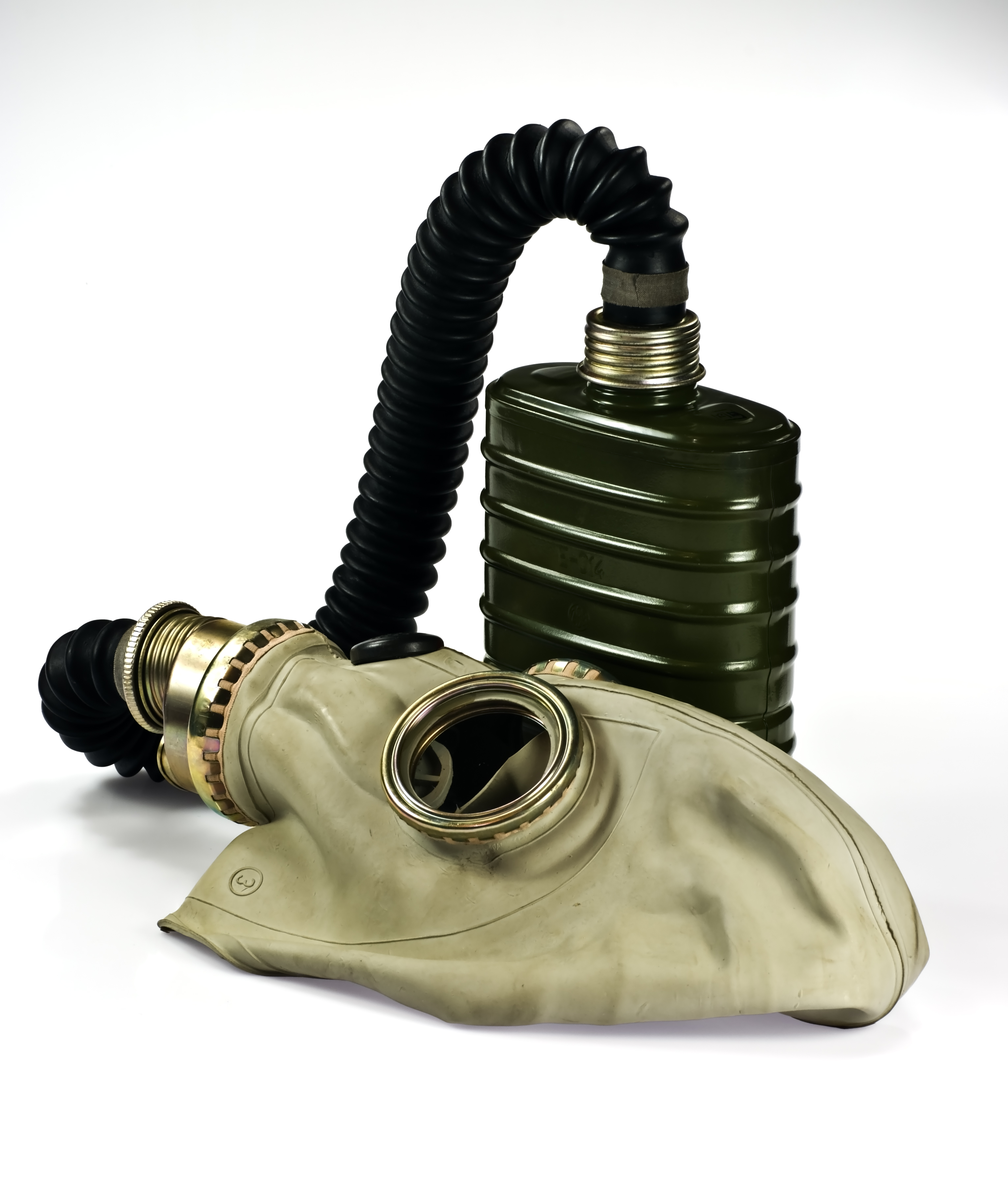 Standard gas mask type MUA used in Polish Army in the 70'ties and 80'ties of the 20th century.